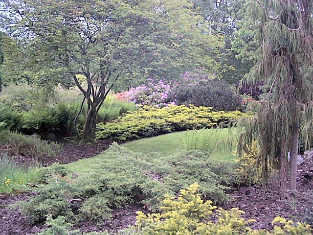 Drum Manor. The gardens in bloom in the summertime.